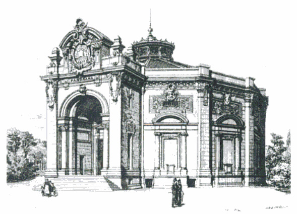 The Panorama Marigny on the Champs-Élysées in Paris, built 1880–82 to designs by Charles Garnier, remodeled into the Théâtre Marigny in 1894